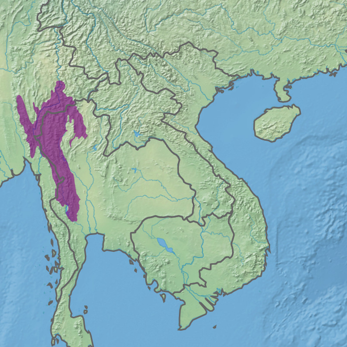 Ecoregion IM0119 - Kayah-Karen montane rain forests (in purple)